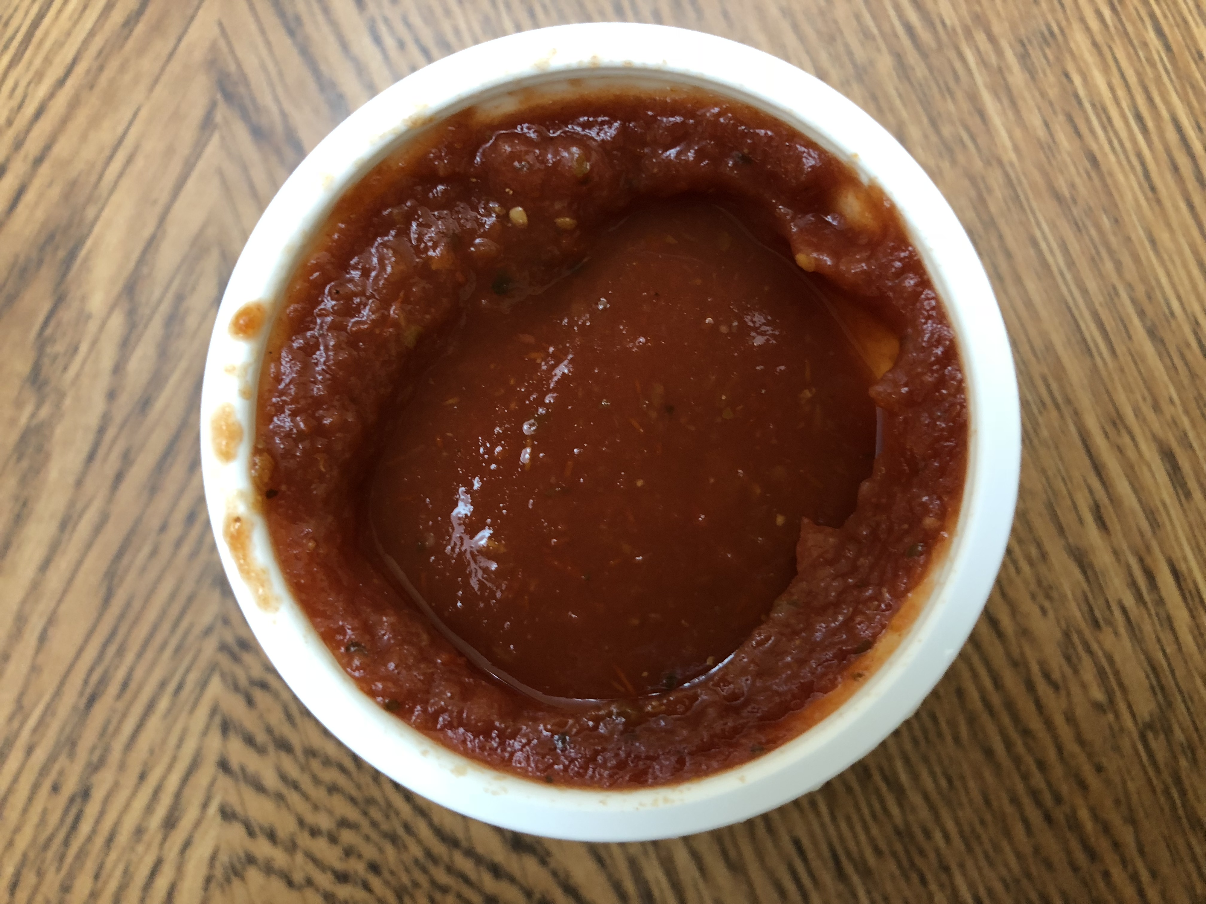 An open cup of marinara sauce from Domino's in the Franklin Farm section of Oak Hill, Fairfax County, Virginia